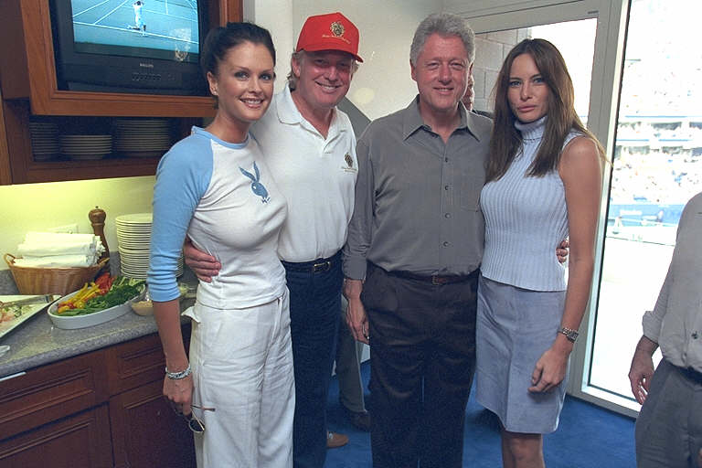 Bill Clinton and Donald Trump at the U.S. Open in 2000, Flushing, New York